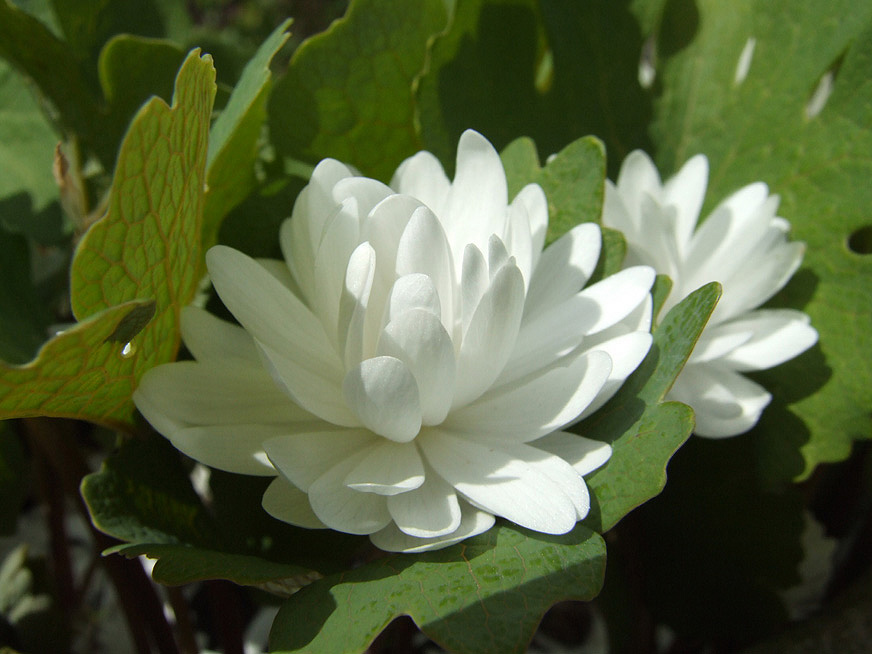 Flowers of a double bloodroot, Sanguinaria canadensis f. multiplex 'Plena'. Close-up detail of a pot-grown plant, taken in my own garden